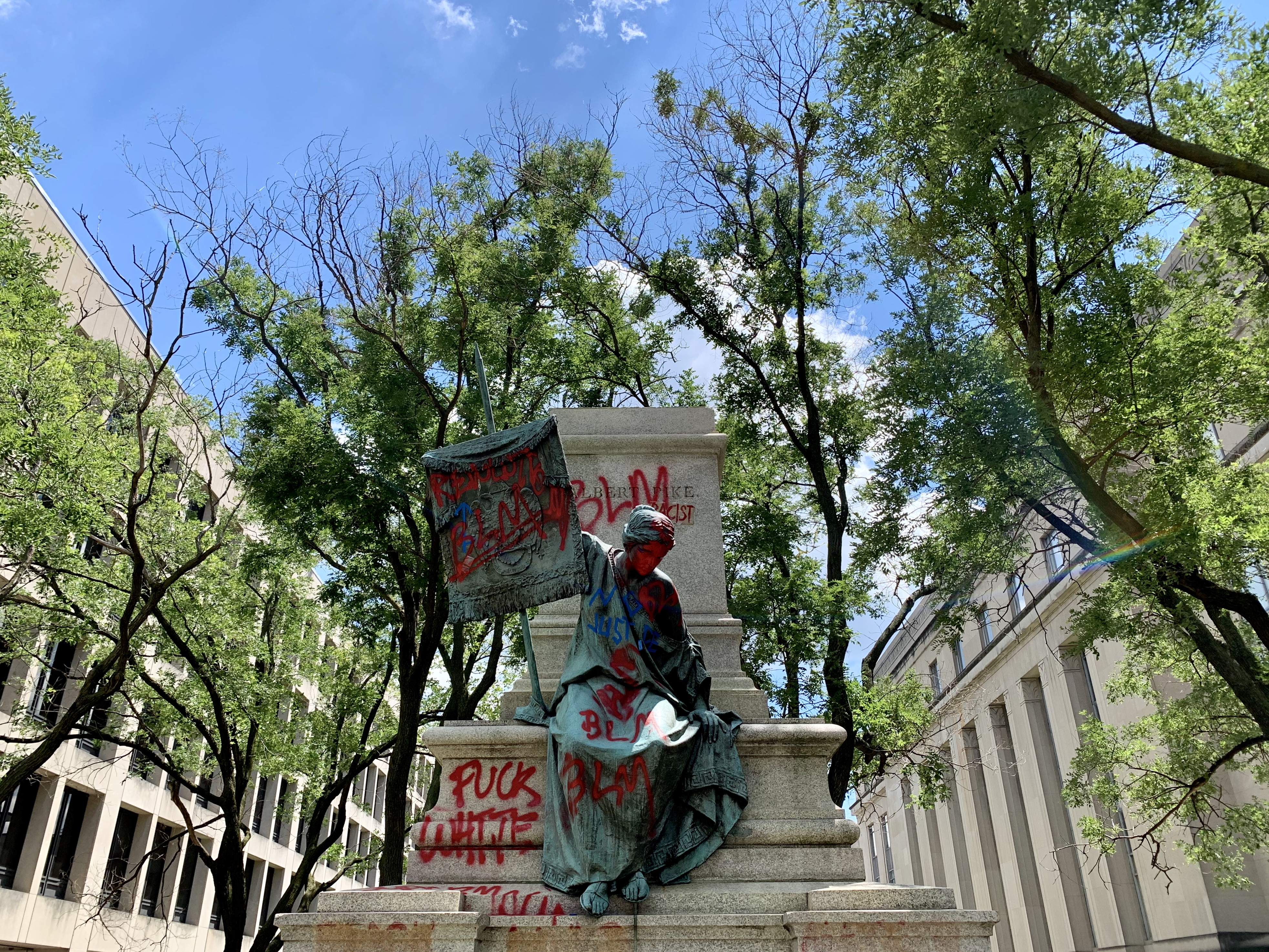 Vandalism to the Statue of Albert Pike following the George Floyd protests.